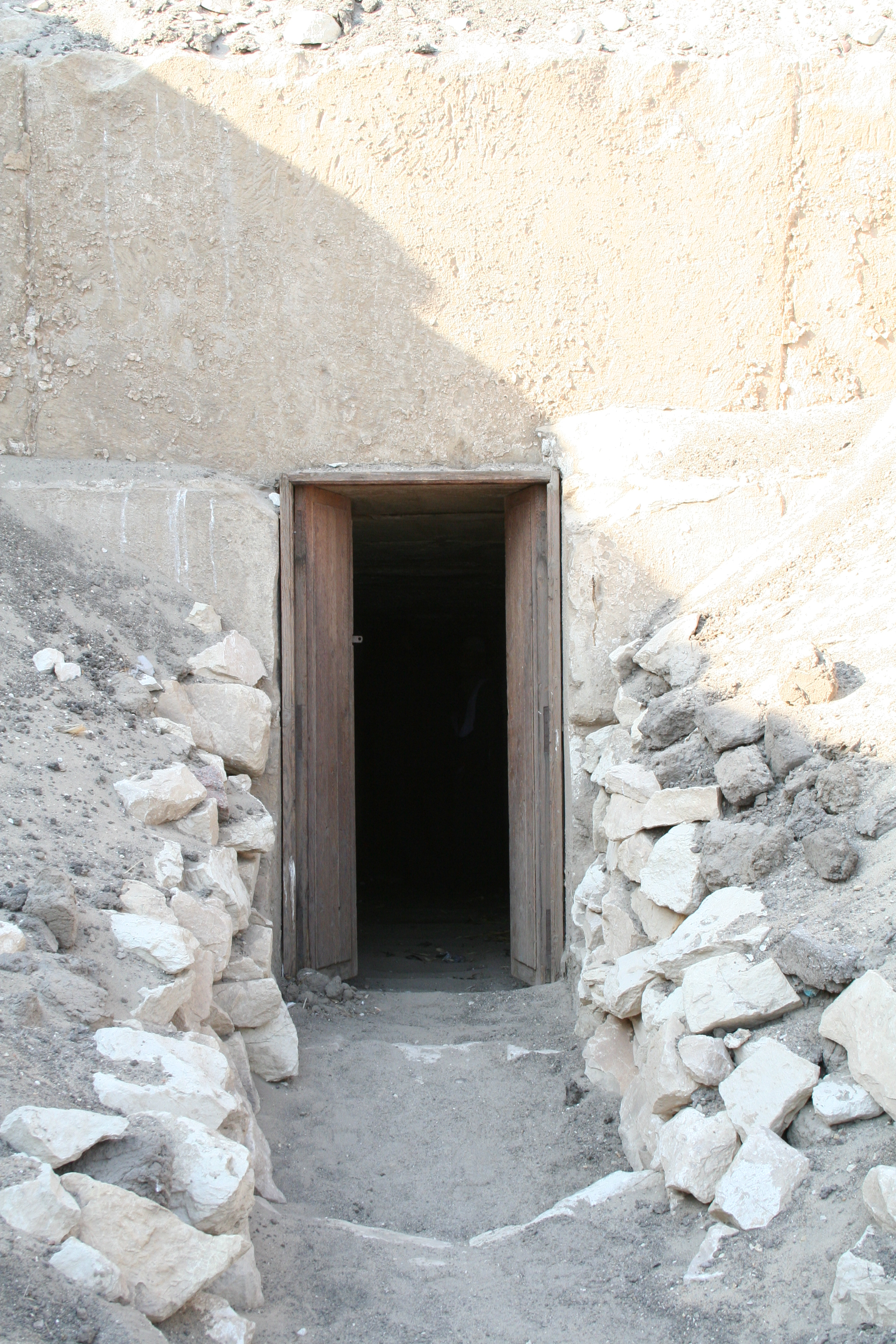 Entrance of the Pyramid of Amenemhat III at Hawara